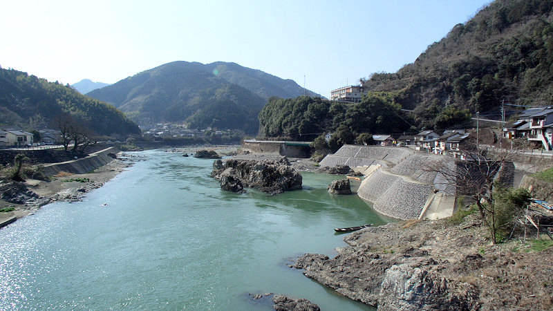 Kuma mura, Kumamoto Prefecture, Japan - Kuma river from the Kuma bridge.